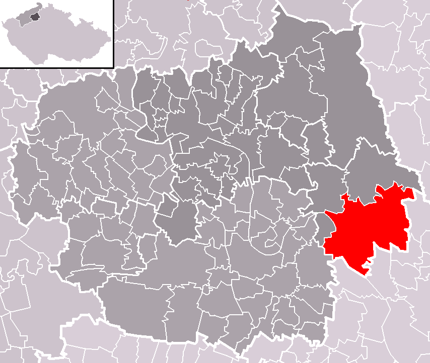 Location of Štětí town within Litoměřice District and administrative area of Litoměřice as a Municipality with Extended Competence.